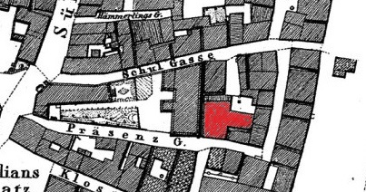 Heilbronn, bis 1723 Haus von H.L. Münster, danach Gasthaus "Der Ritter", Kaiserstraße 31 und 33 (überarbeitet nach Archäolog. Stadtkataster Karte 4, Nr. 232).jpg